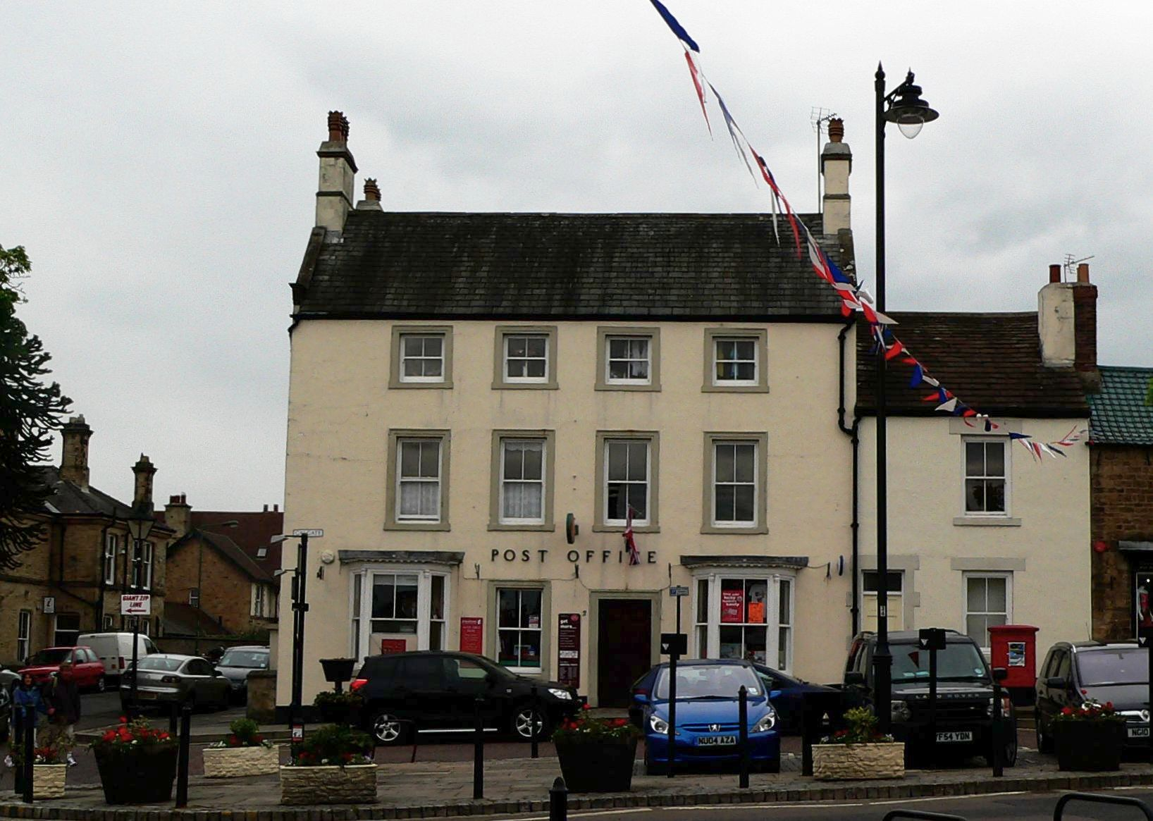 Barnard Castle Post Office - by Francis Hannaway